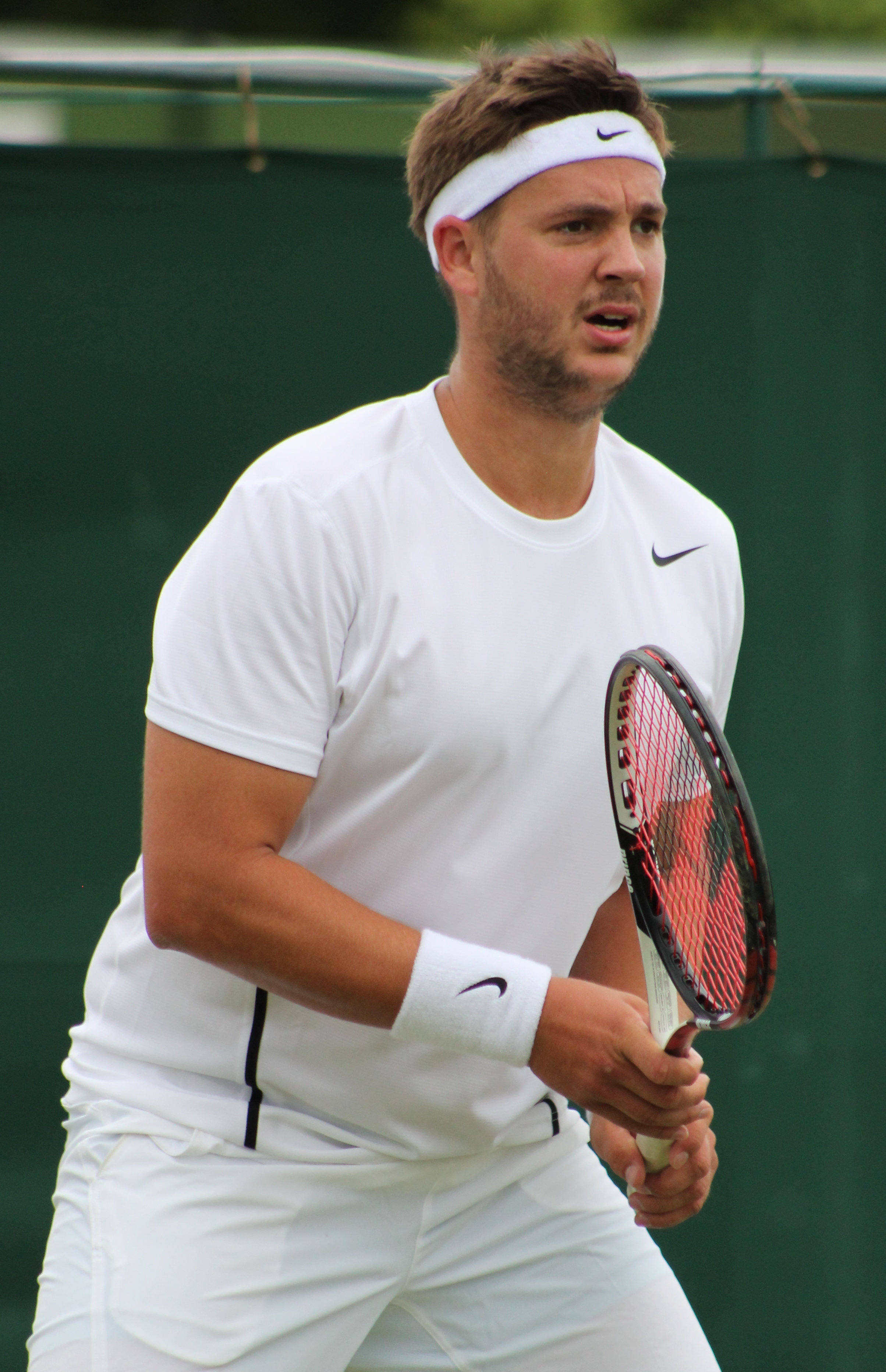 Willis WMQ14 (10)